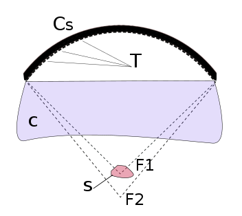 Ultrasound Lithotripter